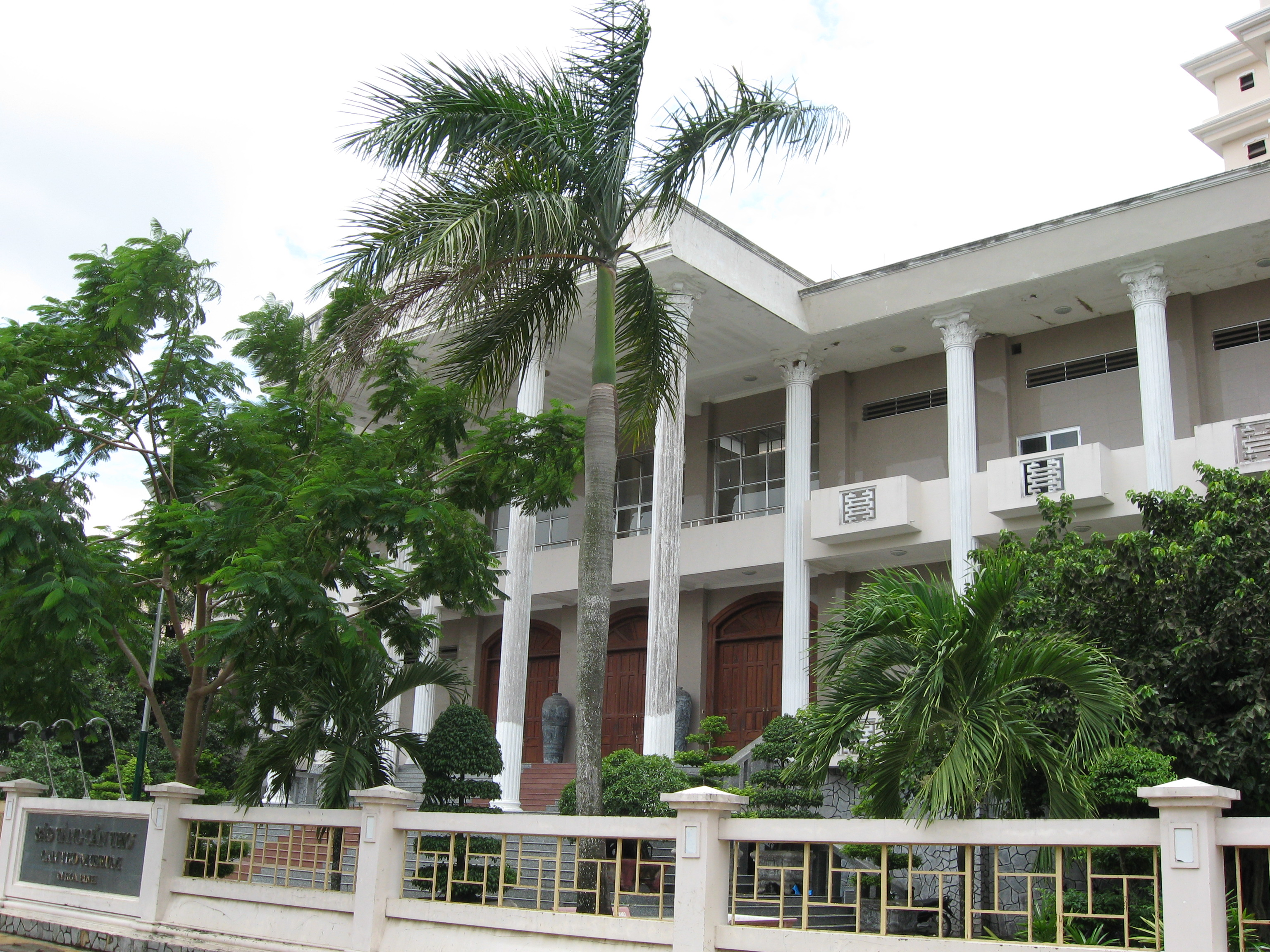 Can Tho Museum